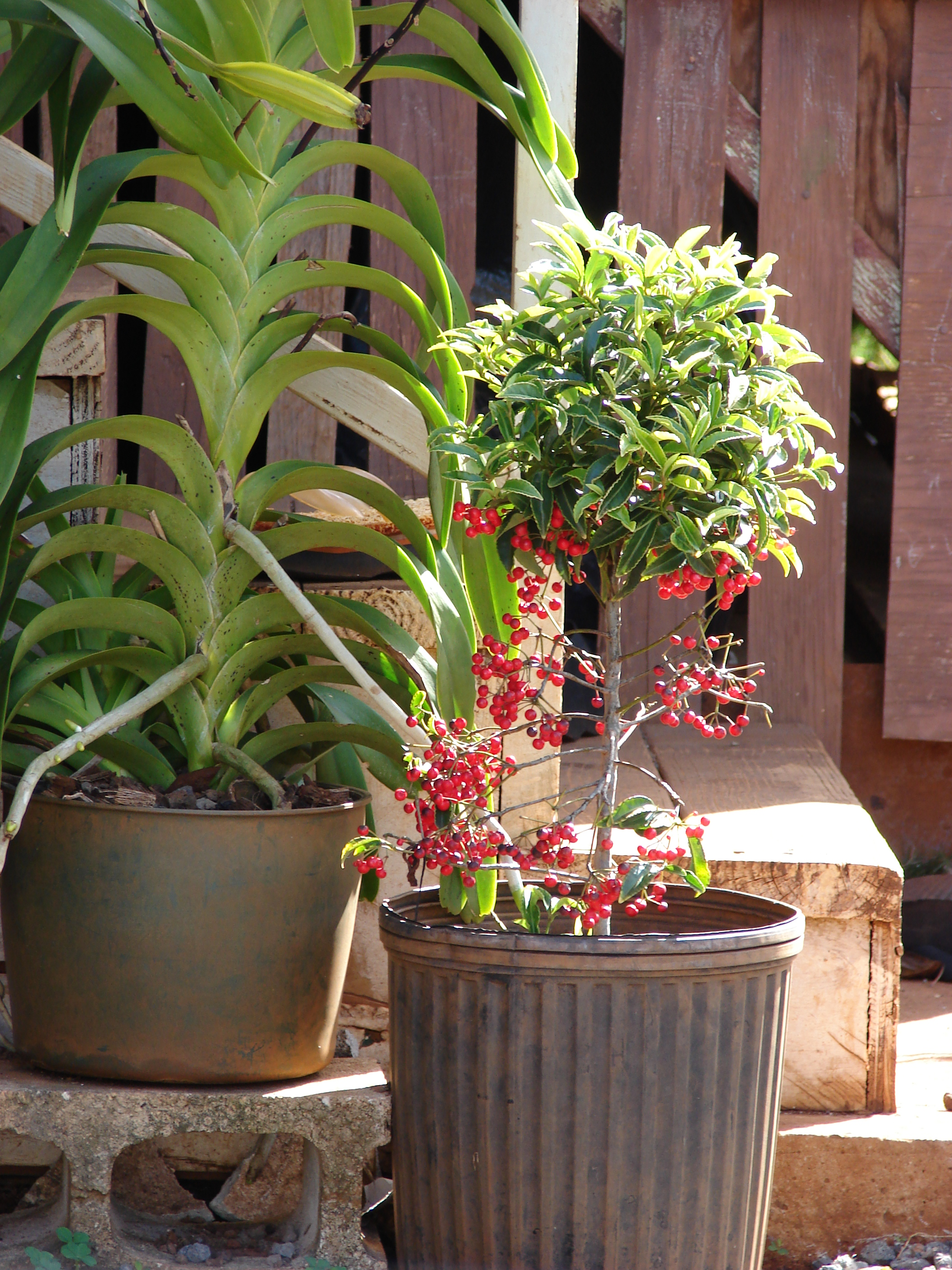 Ardisia crenata (fruiting habit). Location: Lanai, Lanai City